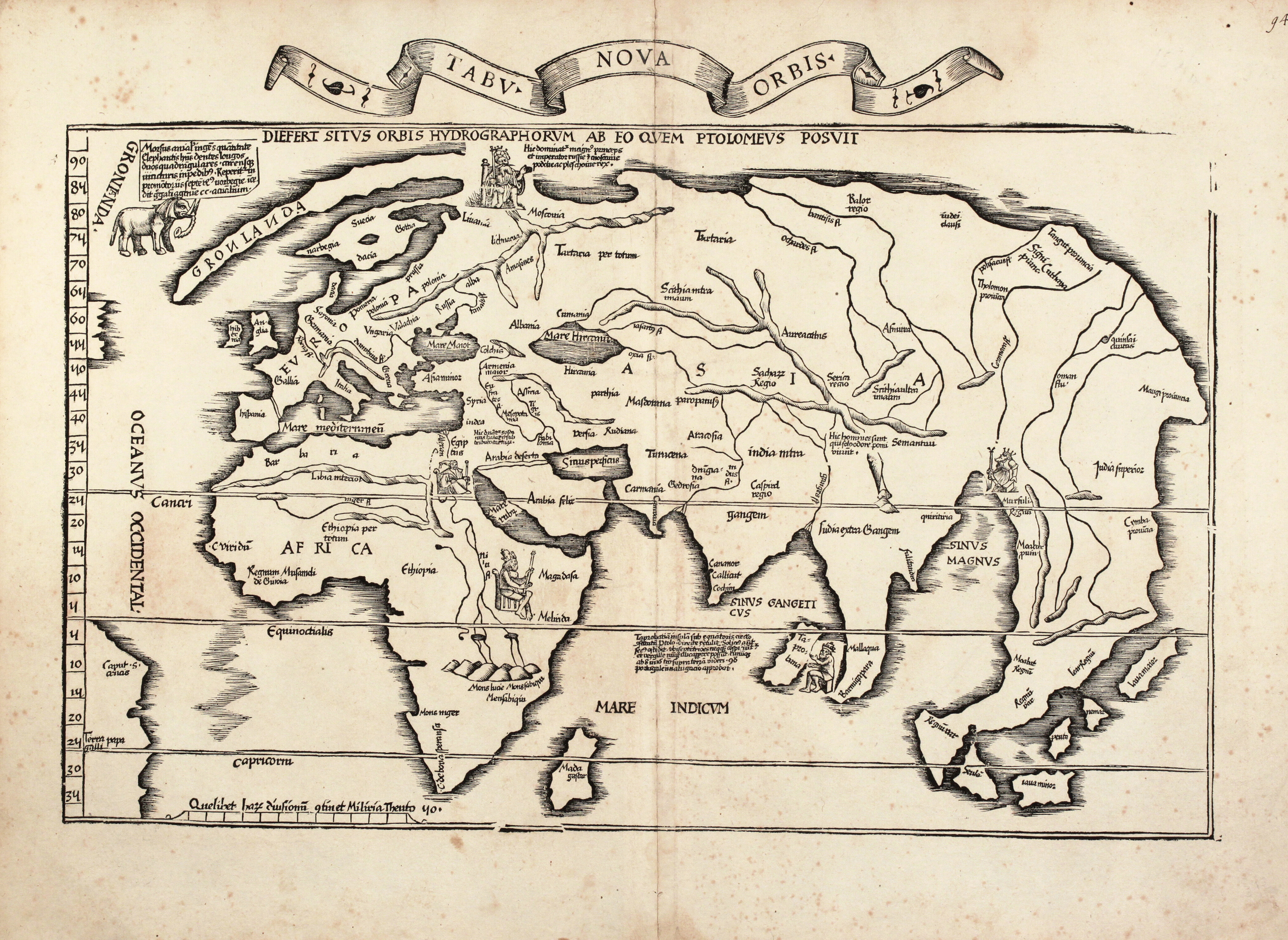 A New World Map (Tabu. Nova Orbis) by Laurent Fries, one of the two modern world maps of the 1522 Strassburg edition of Ptolemy's 'Geography'; largely based on a 1513 map by Martin Waldseemüller.